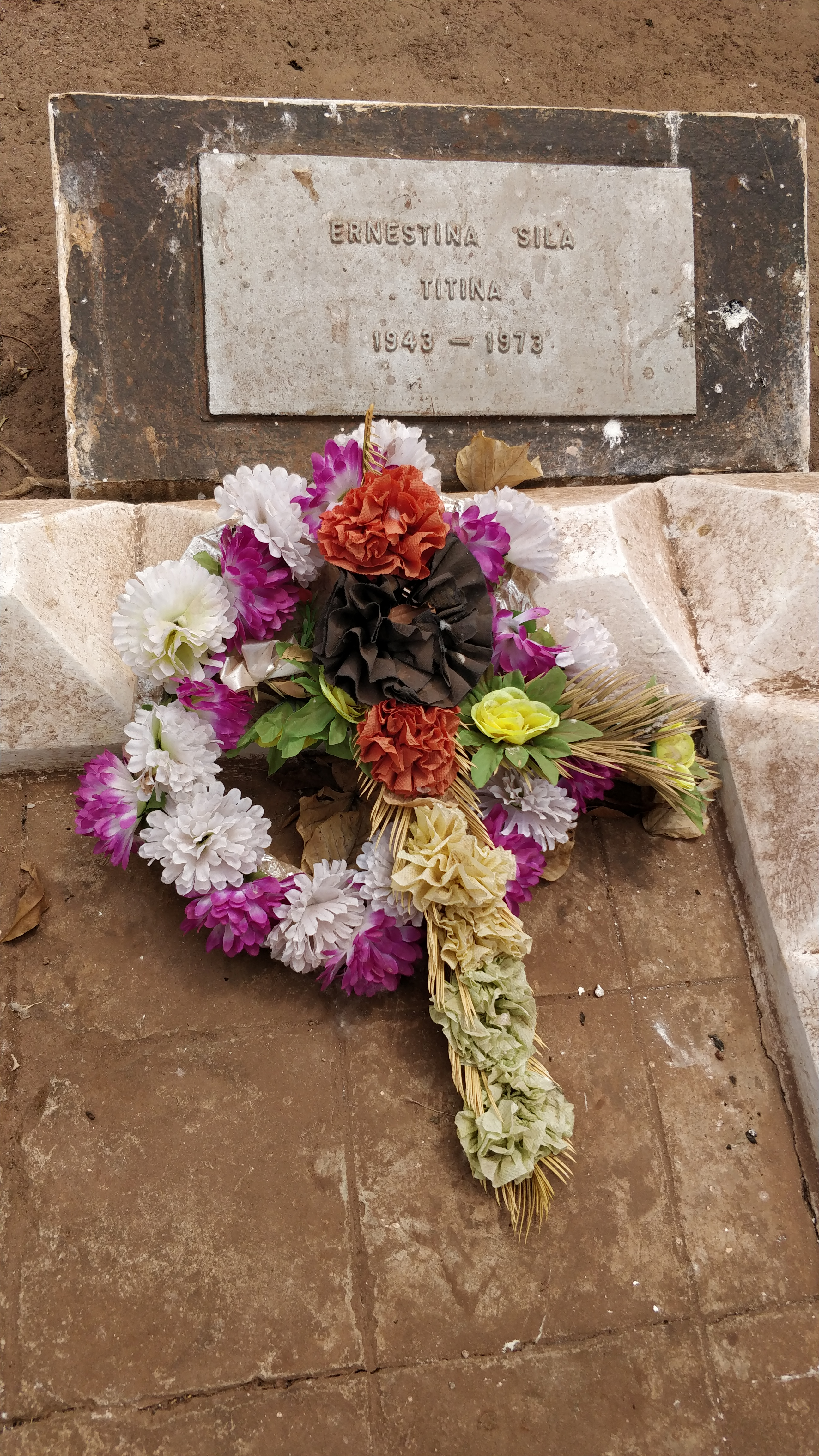 Monument for the Heroes of the Fatherland (Memorial aos Heróis da Pátria) in Bissau